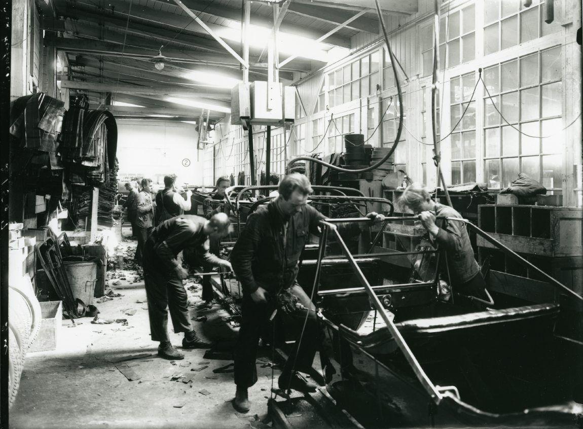 Ford Motor Company's assembly plant in Geimdalsgade in Copenhagen, Denmark